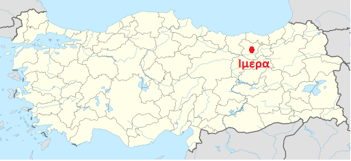 Imera Pontou location